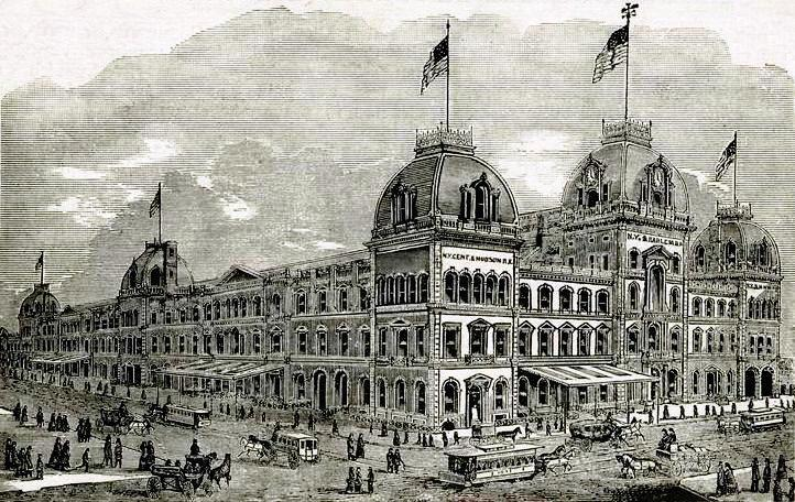 Drawing of Grand Central Depot c.1890s